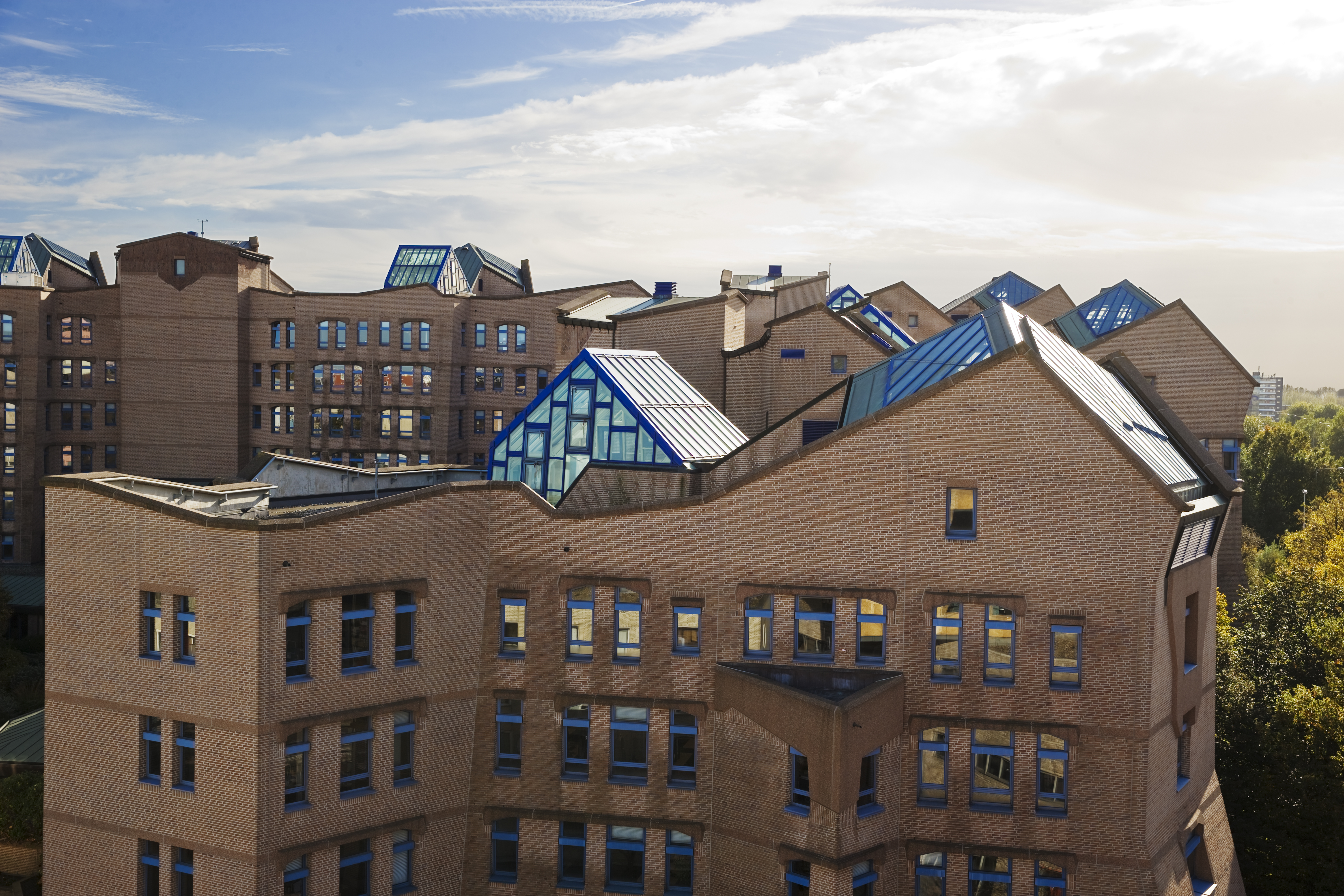 The headquarters of ING Bank in Amsterdam. The building is "het zandkasteel"(Sandcastle).